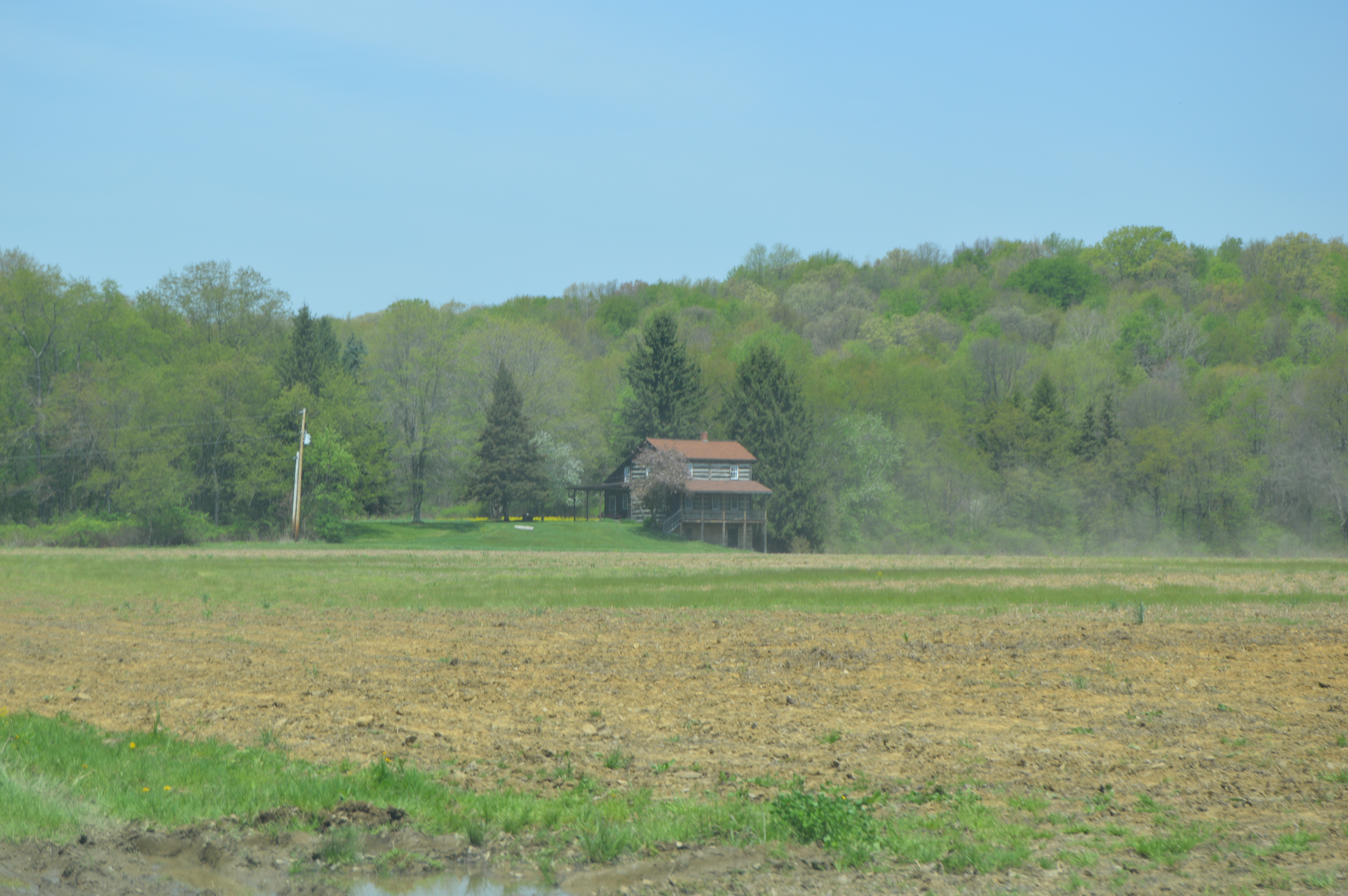 Distant view of the George Diehl Homestead, located on Diehl Road east of Indiana in Cherryhill Township, Indiana County, Pennsylvania, United States. Built in 1835, it is listed on the National Register of Historic Places.